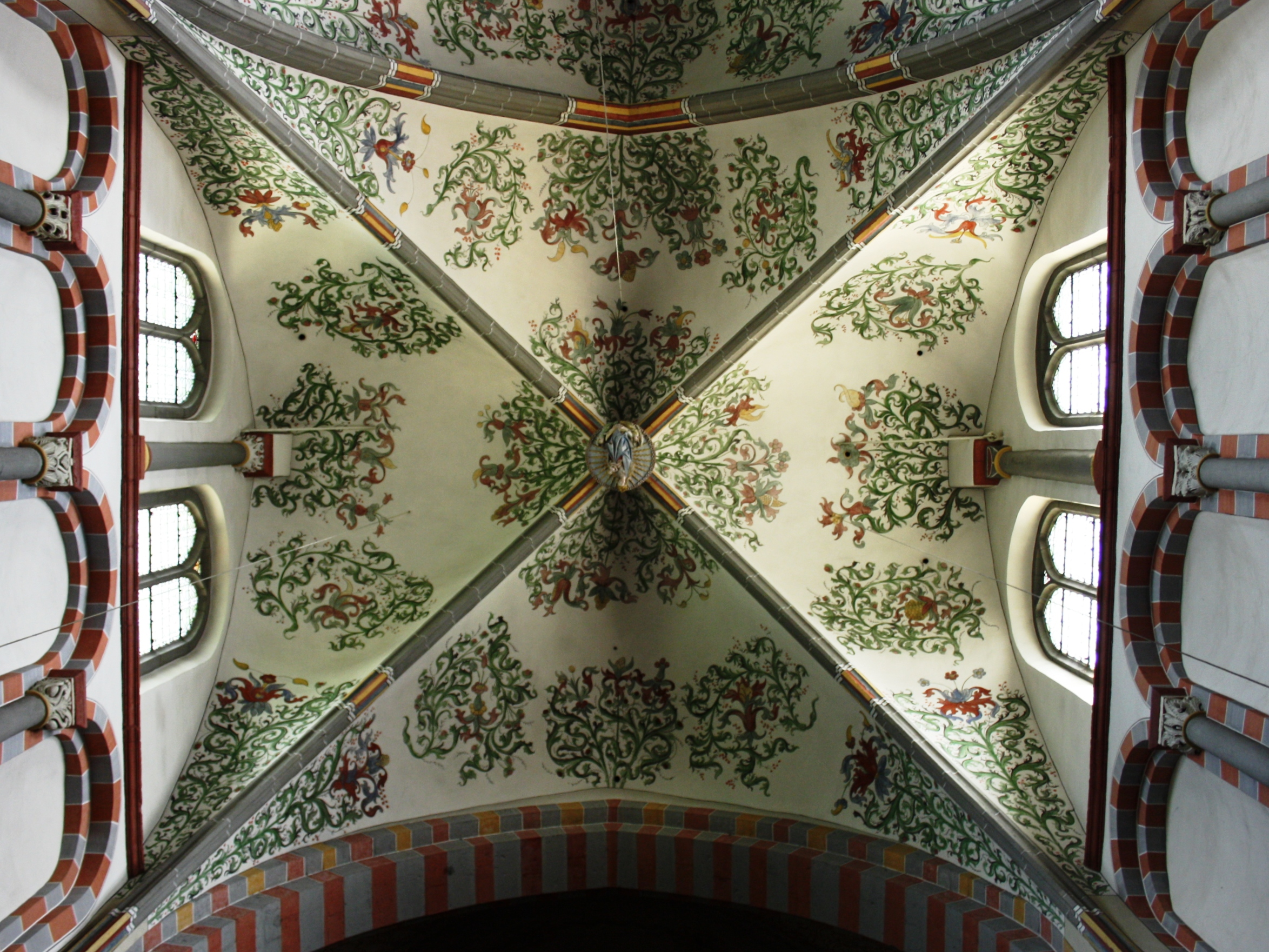 Pulheim Brauweiler near Cologne, former Benedictine Abbey church St. Nikolaus, painted vault of the nave